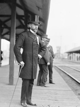 James Taft Hatfield, Professor at Northwestern University, Standing on a Platform at the Chicago and Northwestern Railway Station in Evanston, Illinois, 1902.